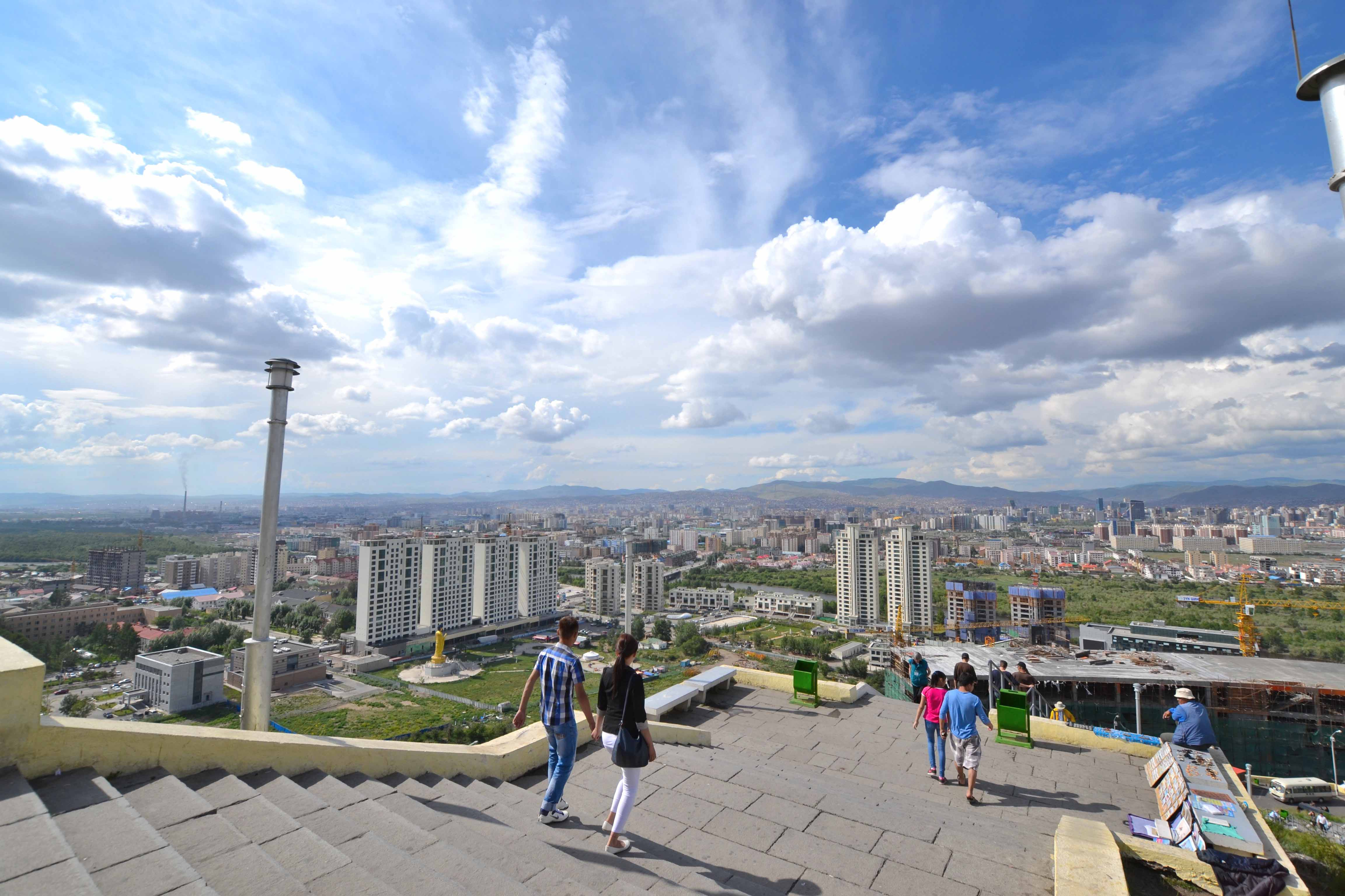 The view of the city from Zaisan Hilll, photo by Gereltuv Dashdoorov